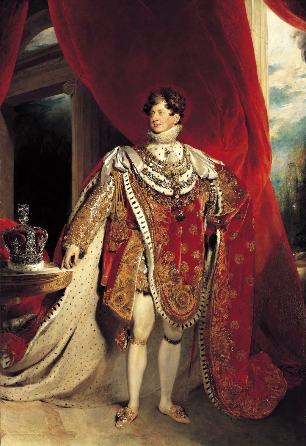 King George IV depicted wearing coronation robes and four collars of chivalric orders: the Golden Fleece, Royal Guelphic, Bath and Garter.